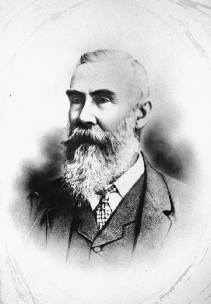 Charles Boydell Dutton, 1883. Squatter. Born 16 August 1834 at Belmont, N.S.W. Married Martha Ann Alice Coley 1865 in Brisbane. Member of the Legislative Assembly for Leichhardt 1883-88. Died 5 February 1904 at Cooredulla, Tenterfield, N.S.W. (Description supplied with photograph.).